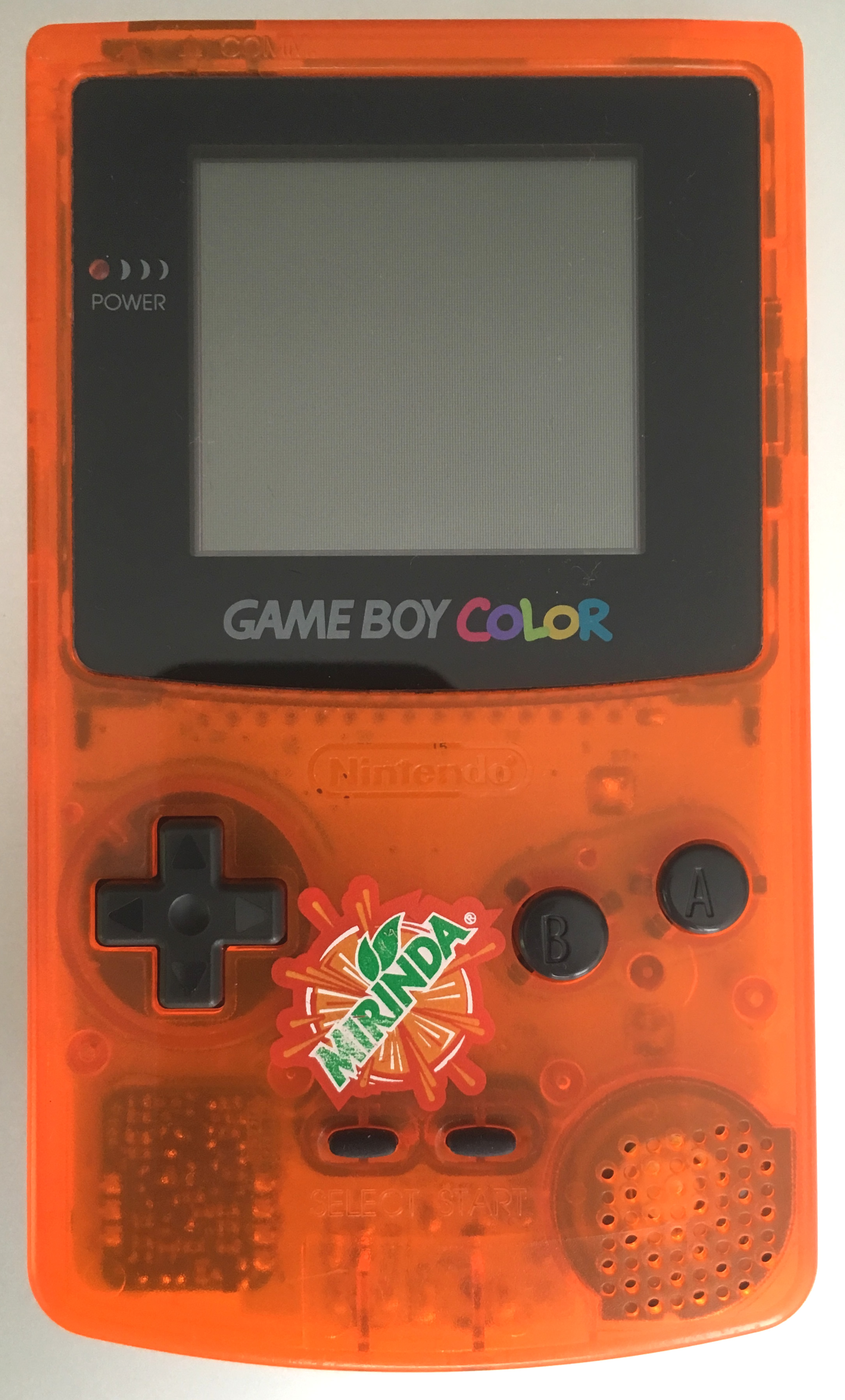 Gameboy Color - Mirinda